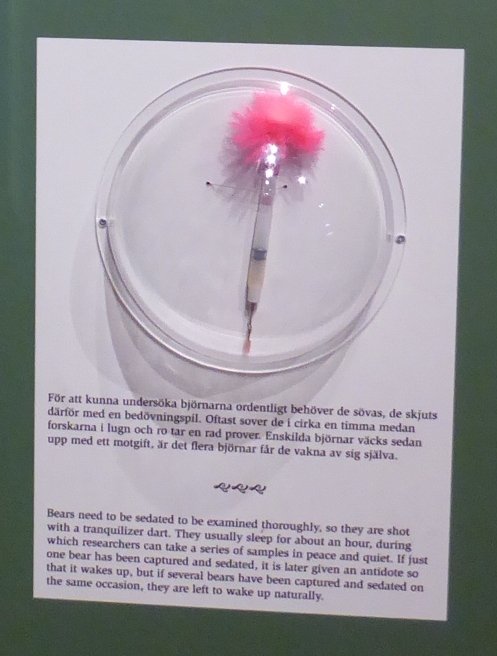 Tranquillizer dart exhibited in Orsa Rovdjurspark. Used to sedate bears for approximately one hour, so that researchers can examine the bear. I took this photo on 2017-12-30.